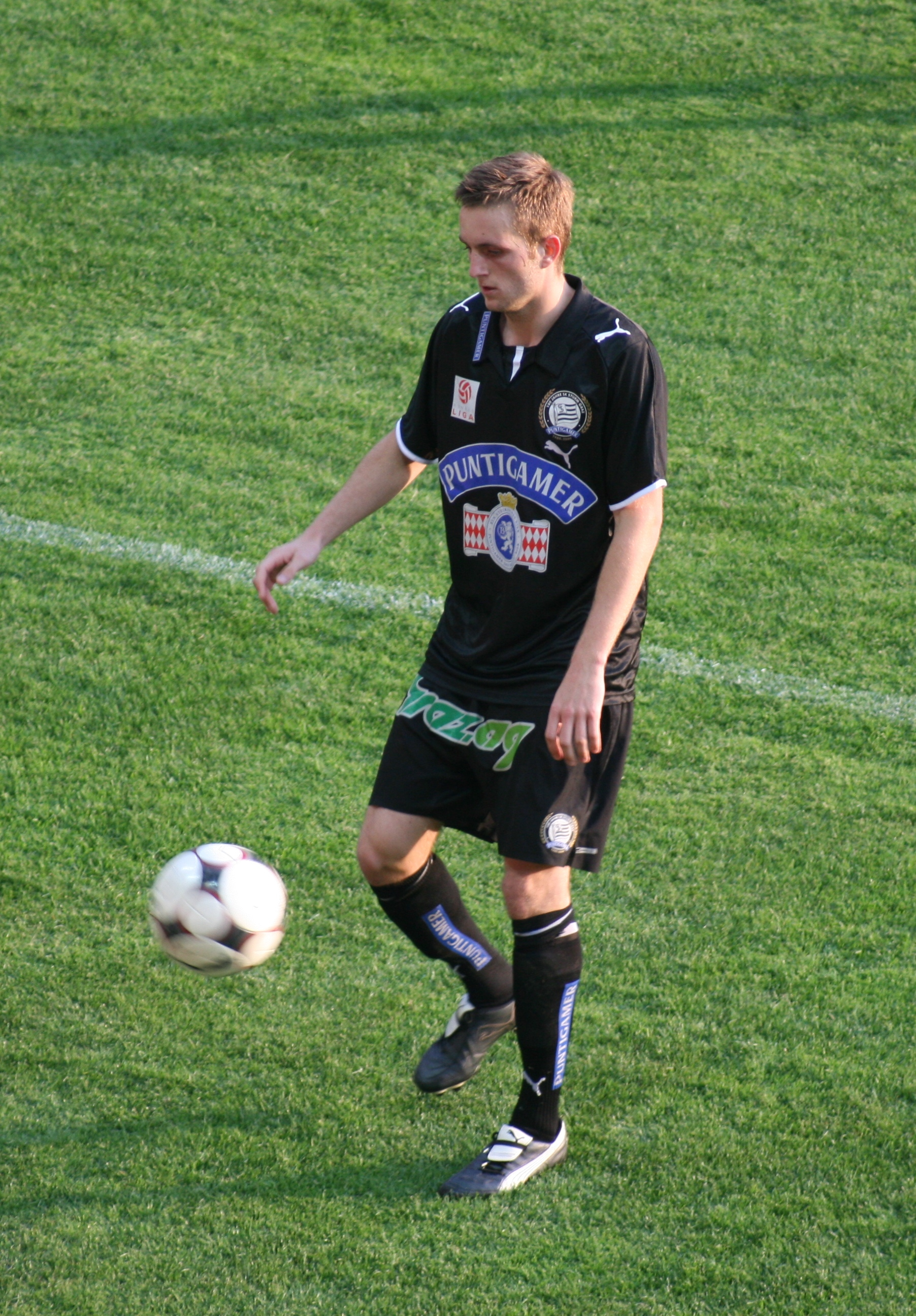 Jakob Jantscher, player SK Sturm Graz